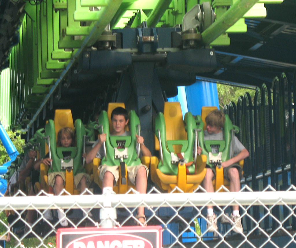 Déjà Vu at Six Flags Great America. This ride closed October 28 2007 and has been sold to Silverwood. Taken August 2007